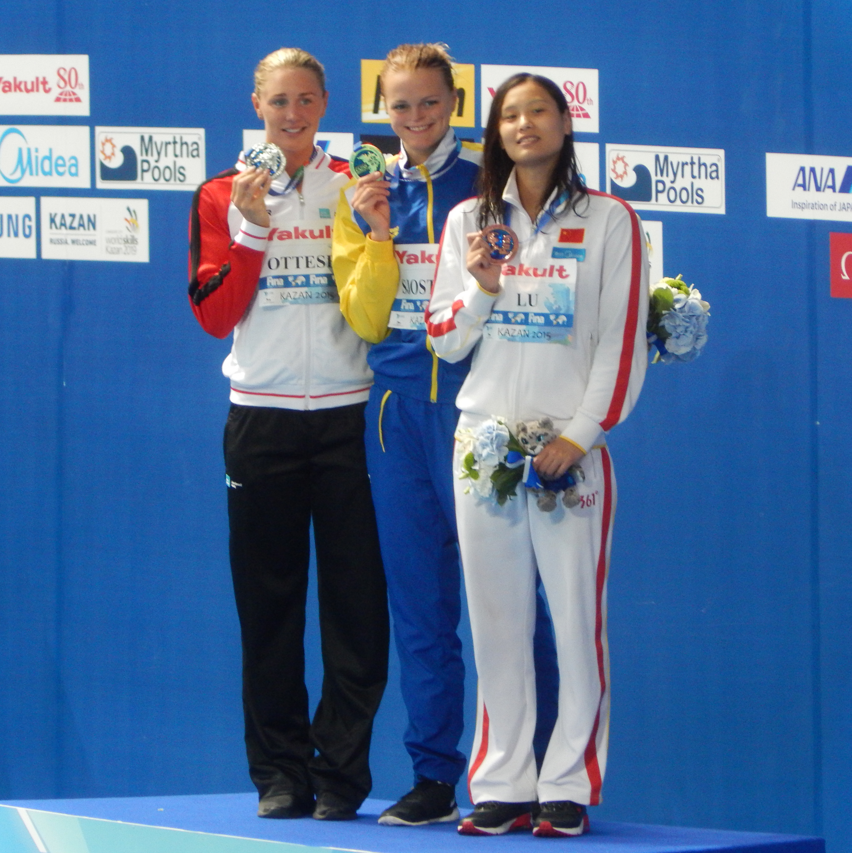 Medallists at the women's 50 metres butterfly in Kazan 2015